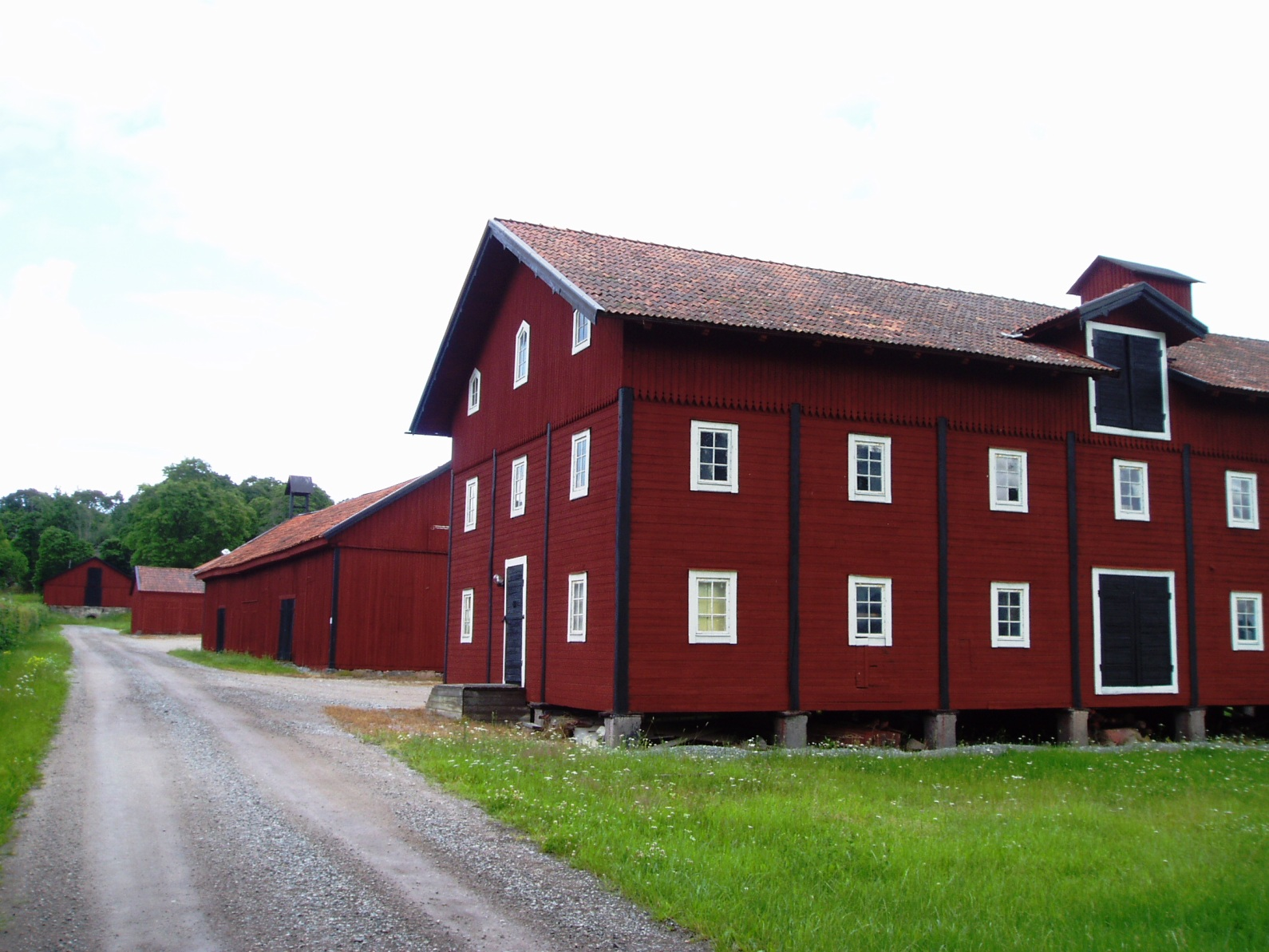 stable at Antuna gård, Upplands-Väsby municipality, Sweden